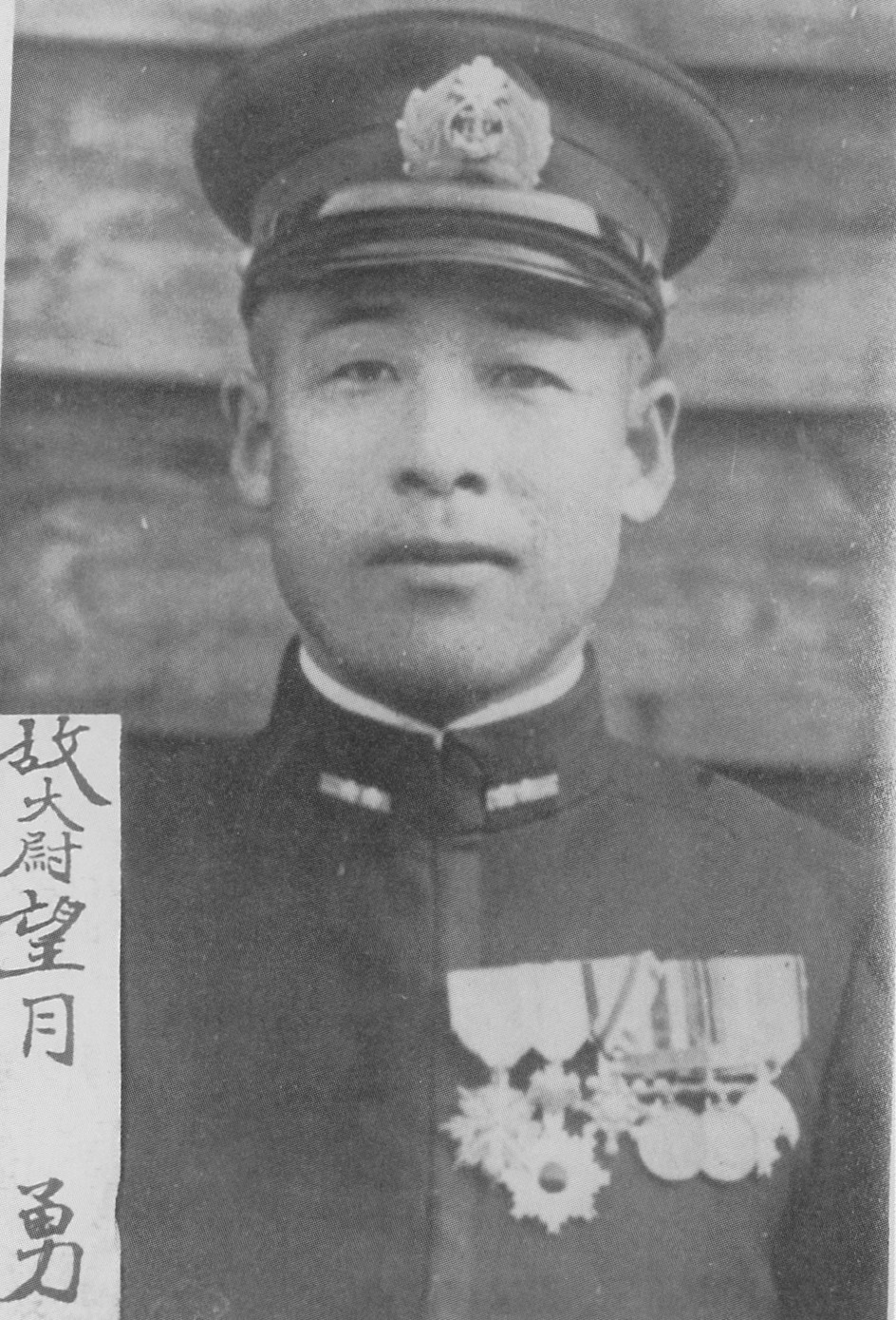 Imperial Japanese Navy fighter ace Lieutenant Isamu Mochizuki. He was officially credited with seven solo fighter combat victories in the Sino-Japanese and Pacific Wars. This picture is of Mochizuki at the rank of Lieutenant Junior Grade.